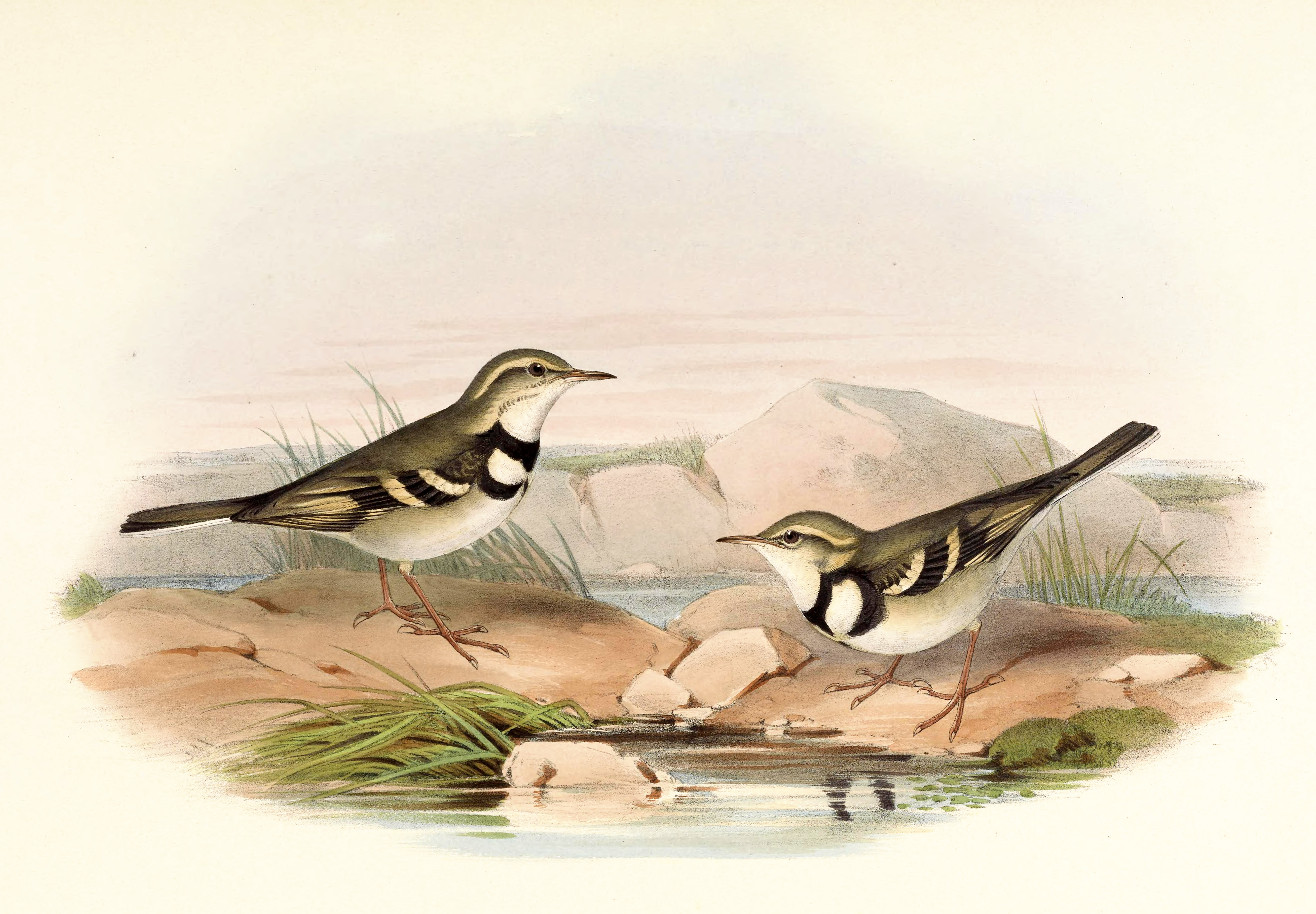 Illustration of Limonidromus indicus = Dendronanthus indicus